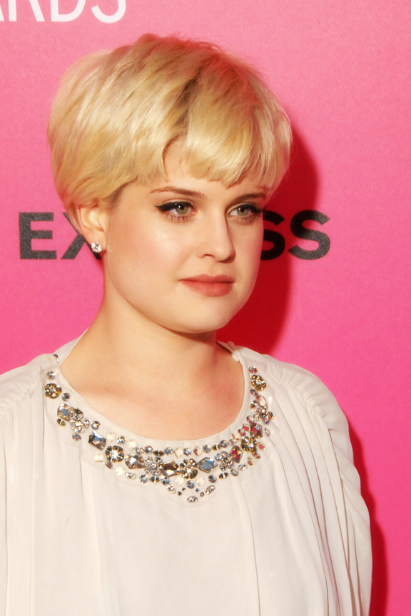 Kelly Osbourne attending "The 6th Annual Hollywood Style Awards" Beverly Hills, CA on Oct. 10, 2009 - Photo by Glenn Francis of